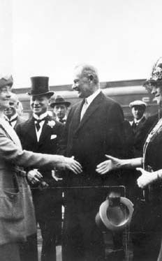 Lord and Lady Byng at Canadian Pacific Railway station, Calgary, Alberta. L-R: Unidentified newspaper woman; John W. Hugill, acting mayor; Lord Byng of Vimy; Lady Byng.